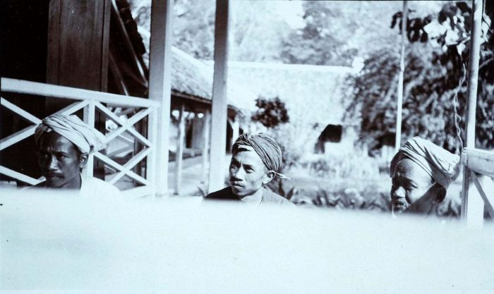 Delegation of the Badui (also known as Kanekes) people